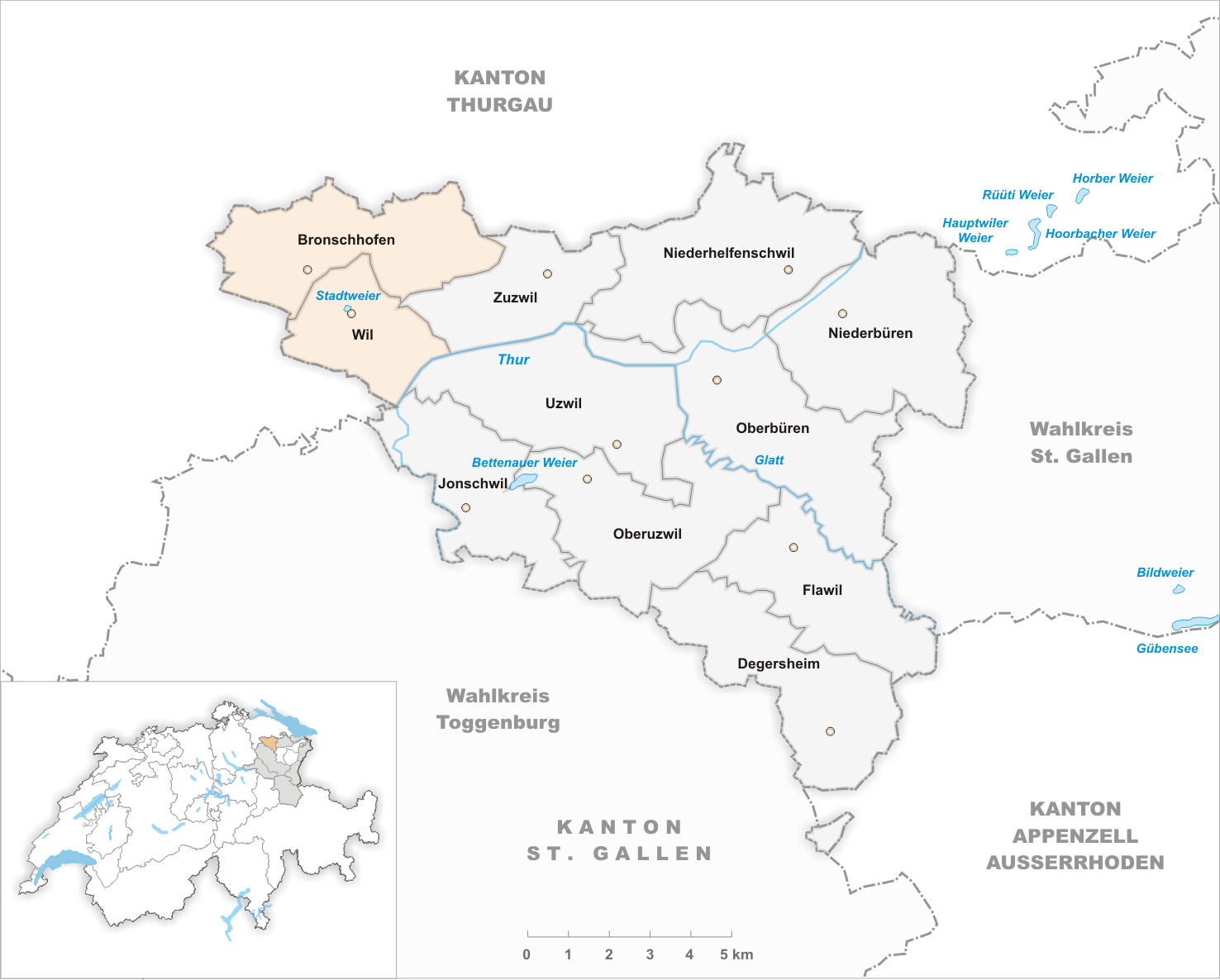 Municipalities of District Wil until 2012